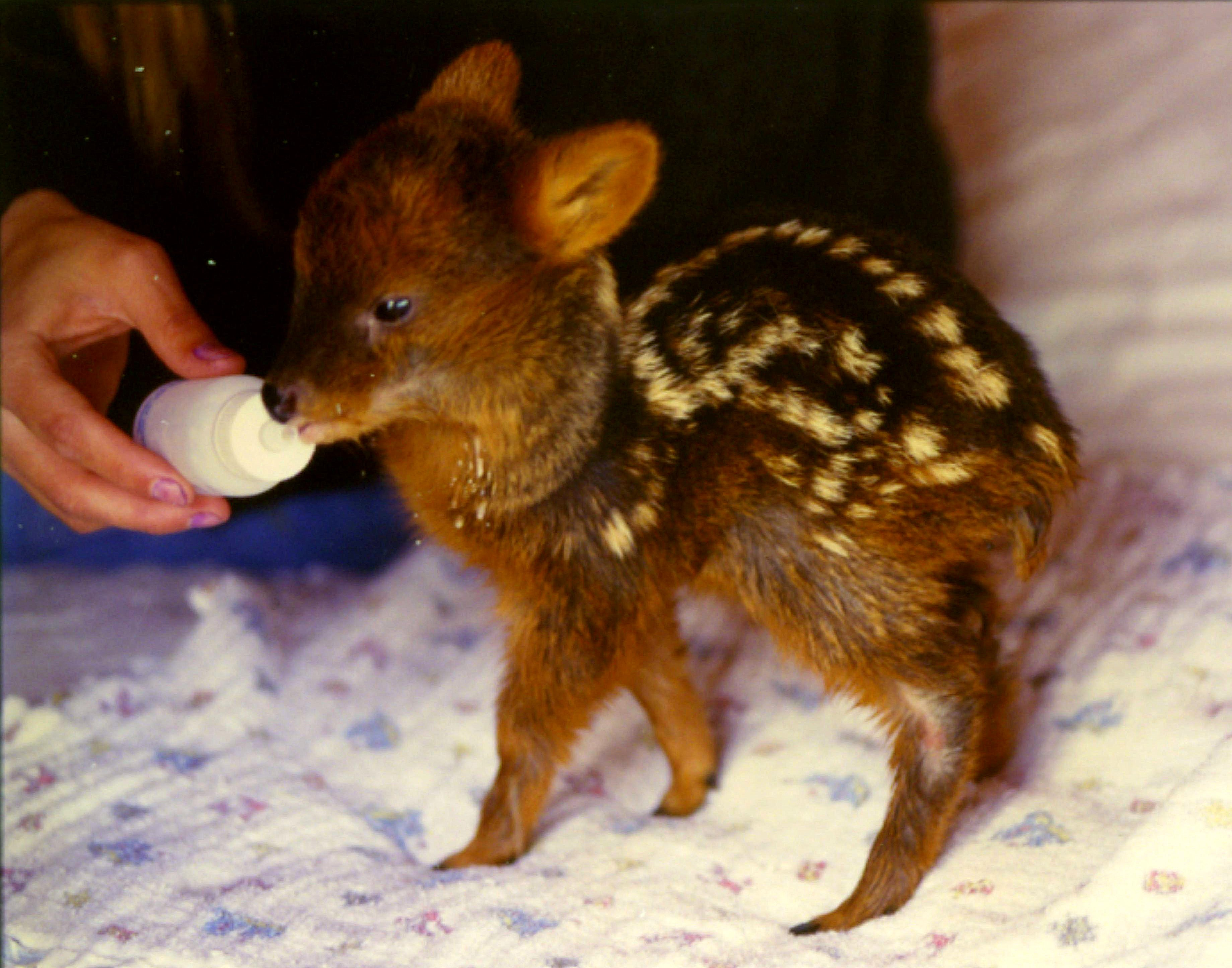 A baby pudú (Pudu puda), Katheryn Pingel's rehabilitation center, Ensenada Llanquihue Province, Chile, November 2001